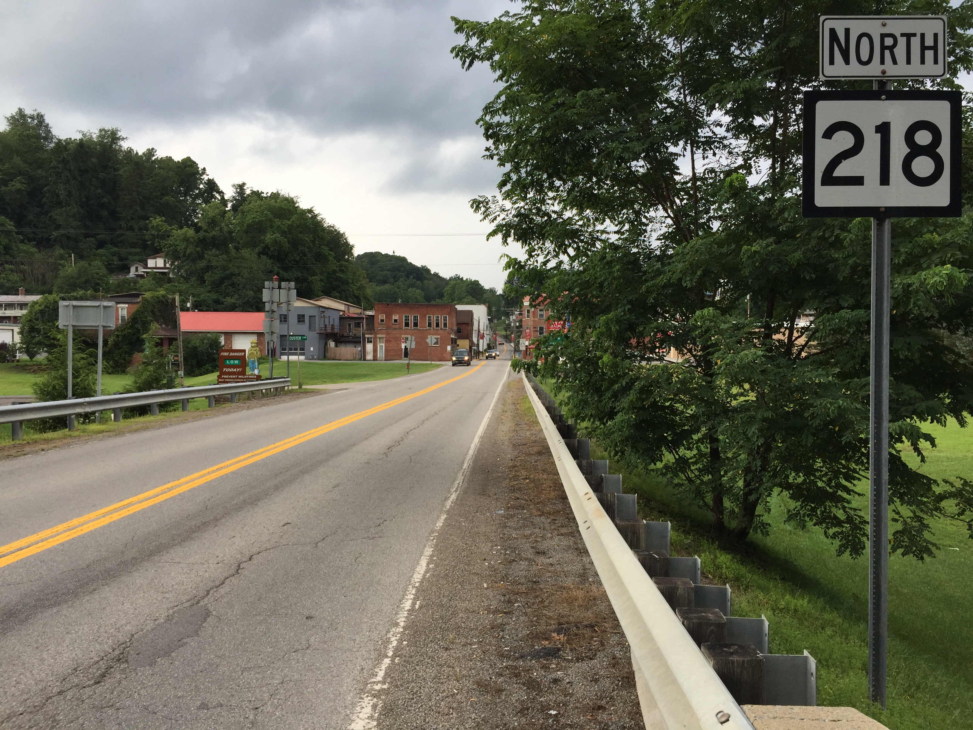 View north along West Virginia State Route 218 (Main Street) at U.S. Route 250 (Husky Highway) in Farmington, Marion County, West Virginia